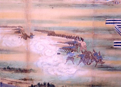 Takashima_Shuhan_gunnery_demonstration_1841.